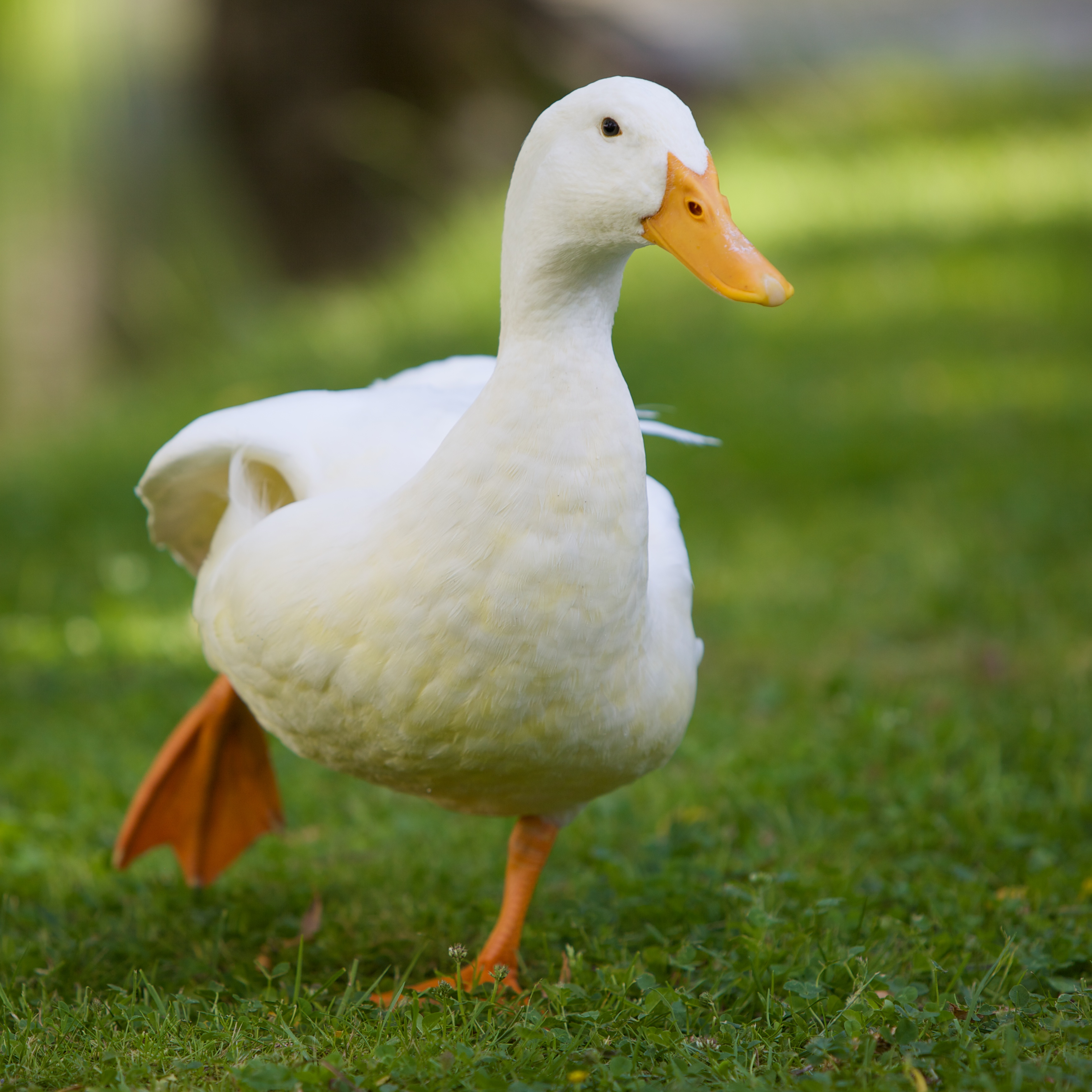 A white domesticated duck while stretching, Brekkeparken, Skien, Norway